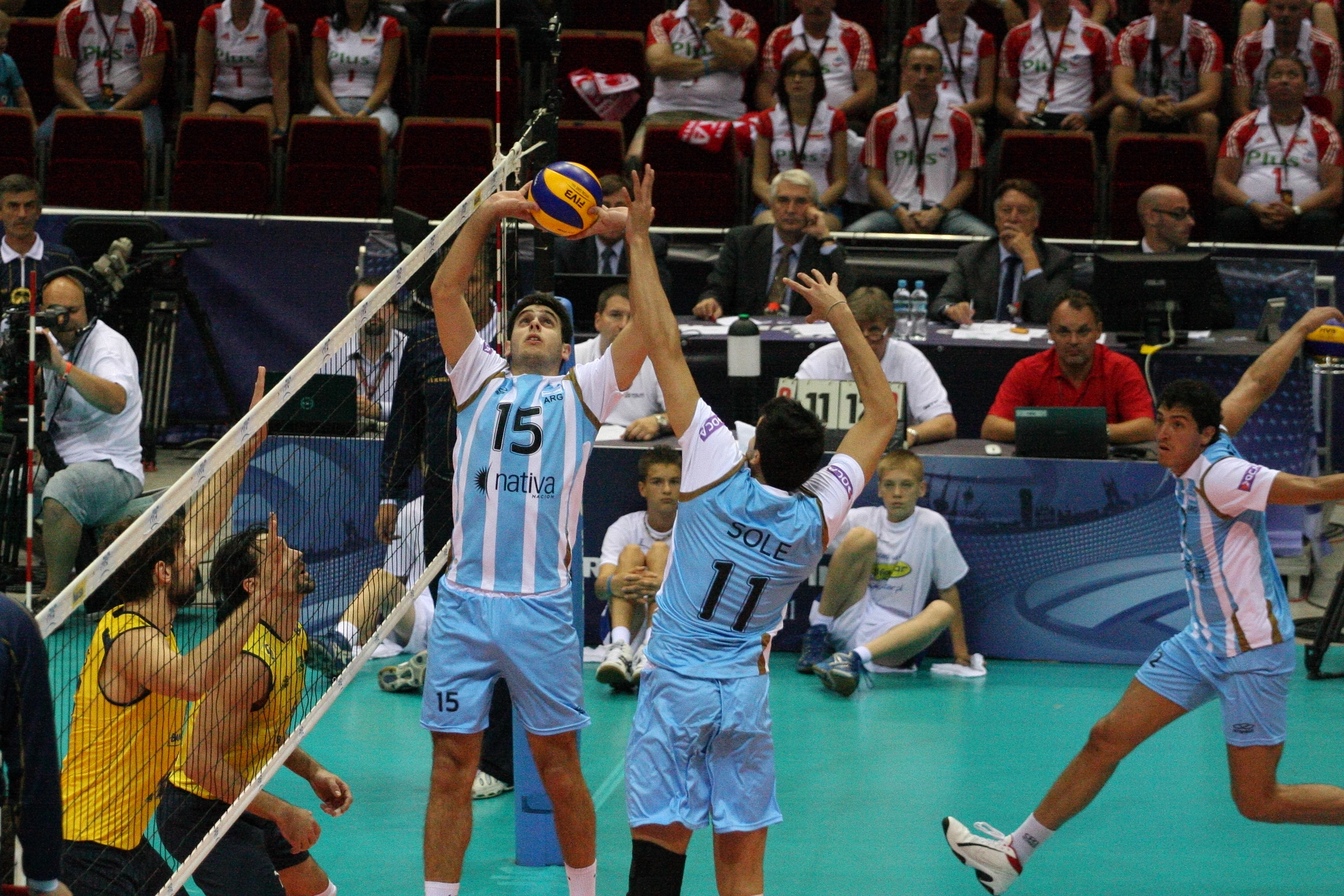 World League Finals, Gdańsk 2011 Brazil vs Argentina; Poland vs Russia